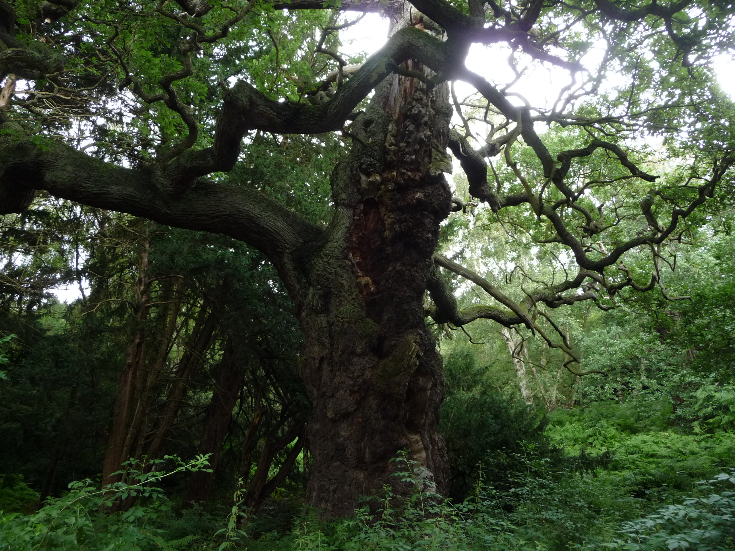 Sherwood Forest